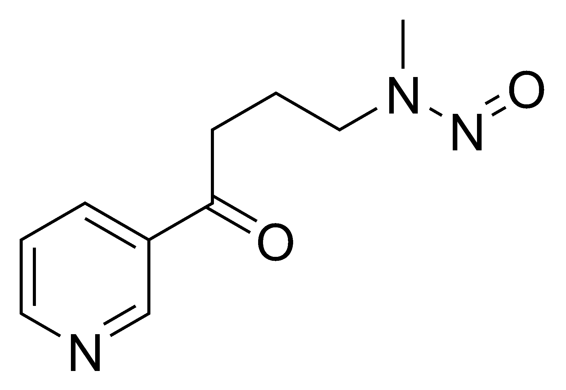 Chemical structure of NNK